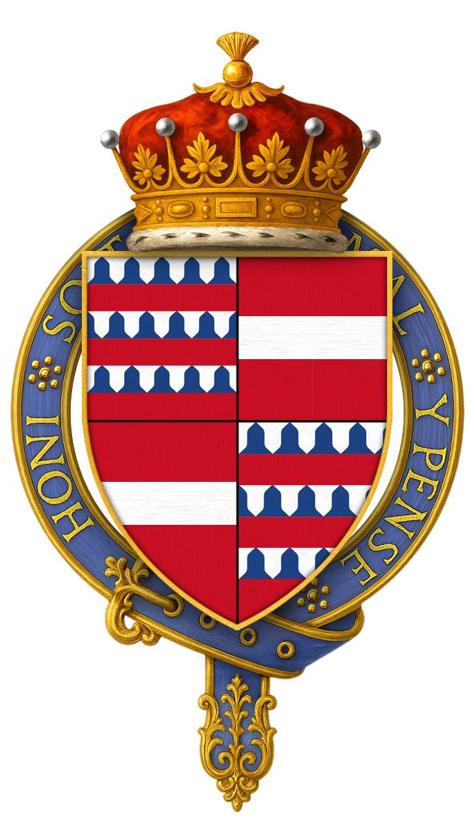 Coat of Arms of Sir Enguerrand de Coucy, 1st Earl of Bedford, KG “Ingleram de Coucy, Earl of Bedford… Arms: Barry of six Vaire and Gules.” BELTZ, George Frederick, Memorials of the Order of the Garter from Its Foundation to the Present Time, London: William Pickering, 1841. Quartering with the House of Babenberg from the Gelre Armorial, Folio 47r.